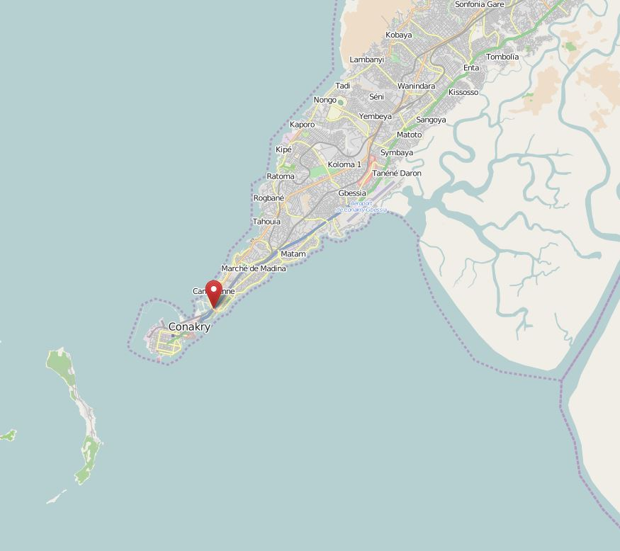 8 November Bridge, Guinea This map may be incomplete, and may contain errors. Don't rely solely on it for navigation.